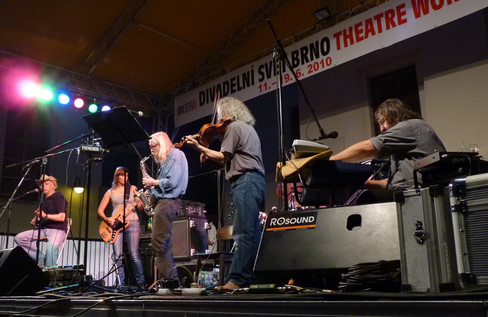 Czech musical group The Plastic People of the Universe. Old Town in Brno, 13th June 2010